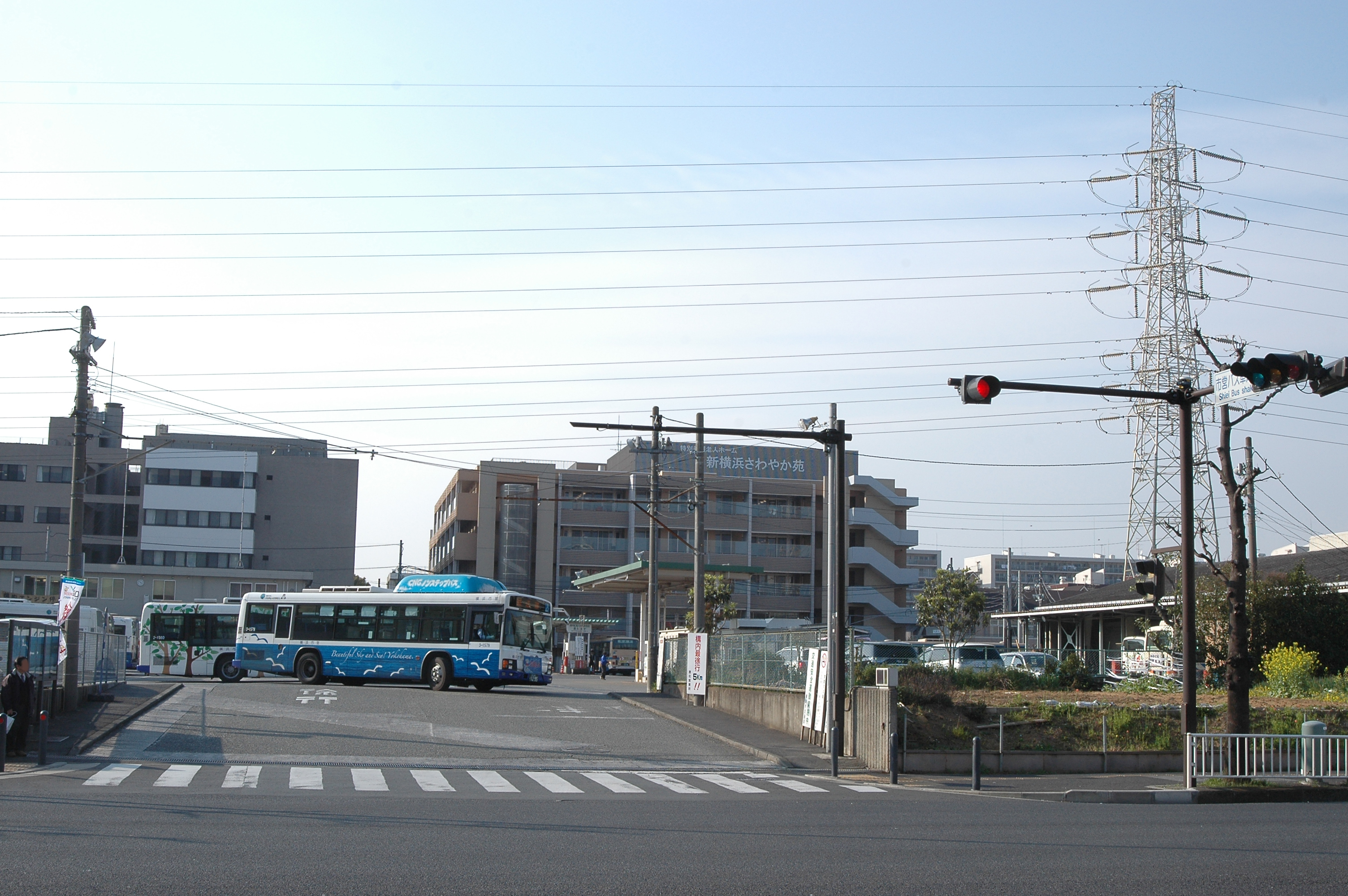 Kohoku Shed, Yokohama, Japan